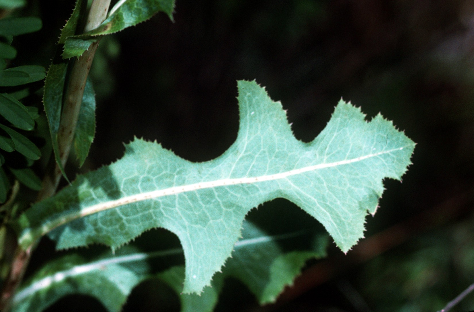 Lactuca serriola L. - prickly lettuce